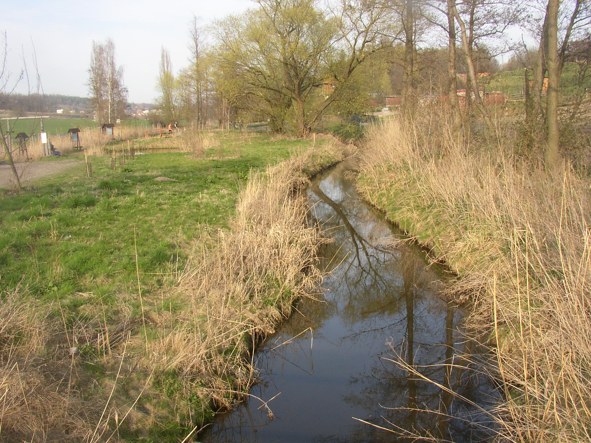 Týnecký potok stream near Čabárna above village of Brandýsek, Kladno District, Czech Republic. A view downstream from road to Čabárna.